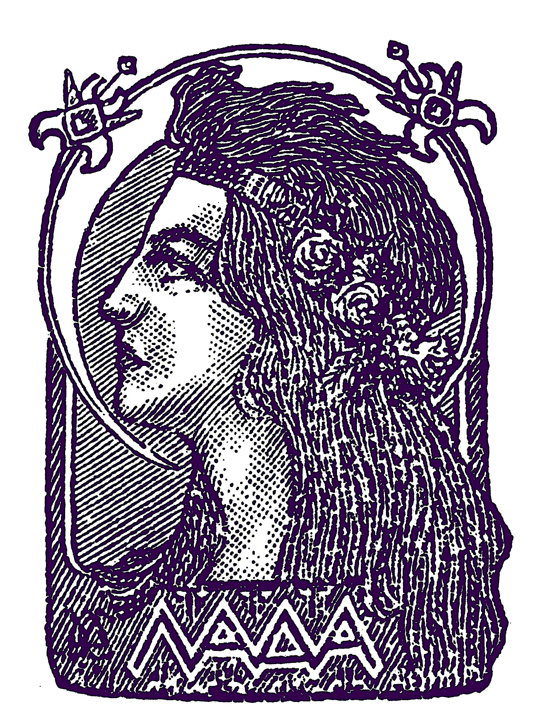 Logo of Serbian society of artists 'Lada' by Marko Murat 1904